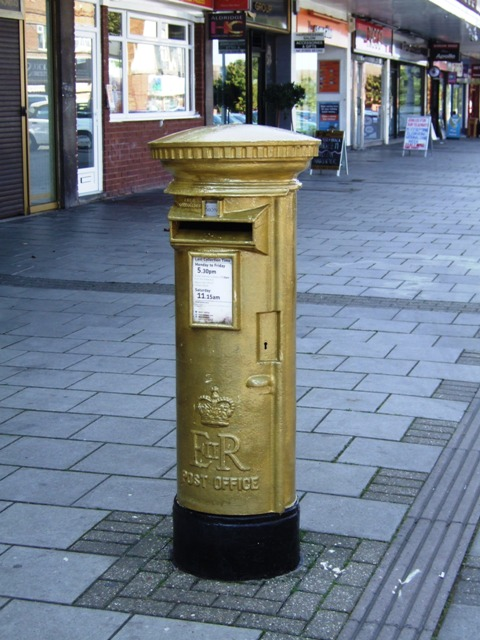 Gold postbox on the High Street. Celebrating Ellie Simmonds medal winning performances in the swimming pool at the 2012 London Paralympic Games.